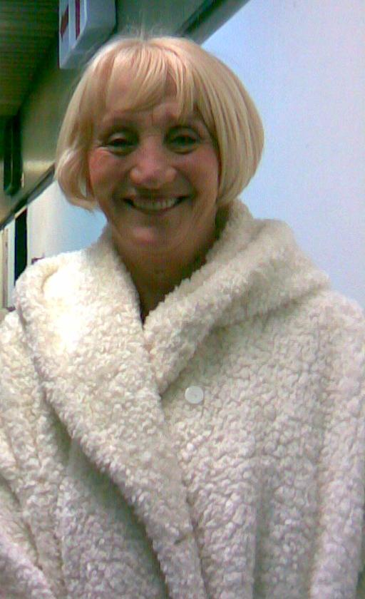 Milka Canić at the RTS studios.